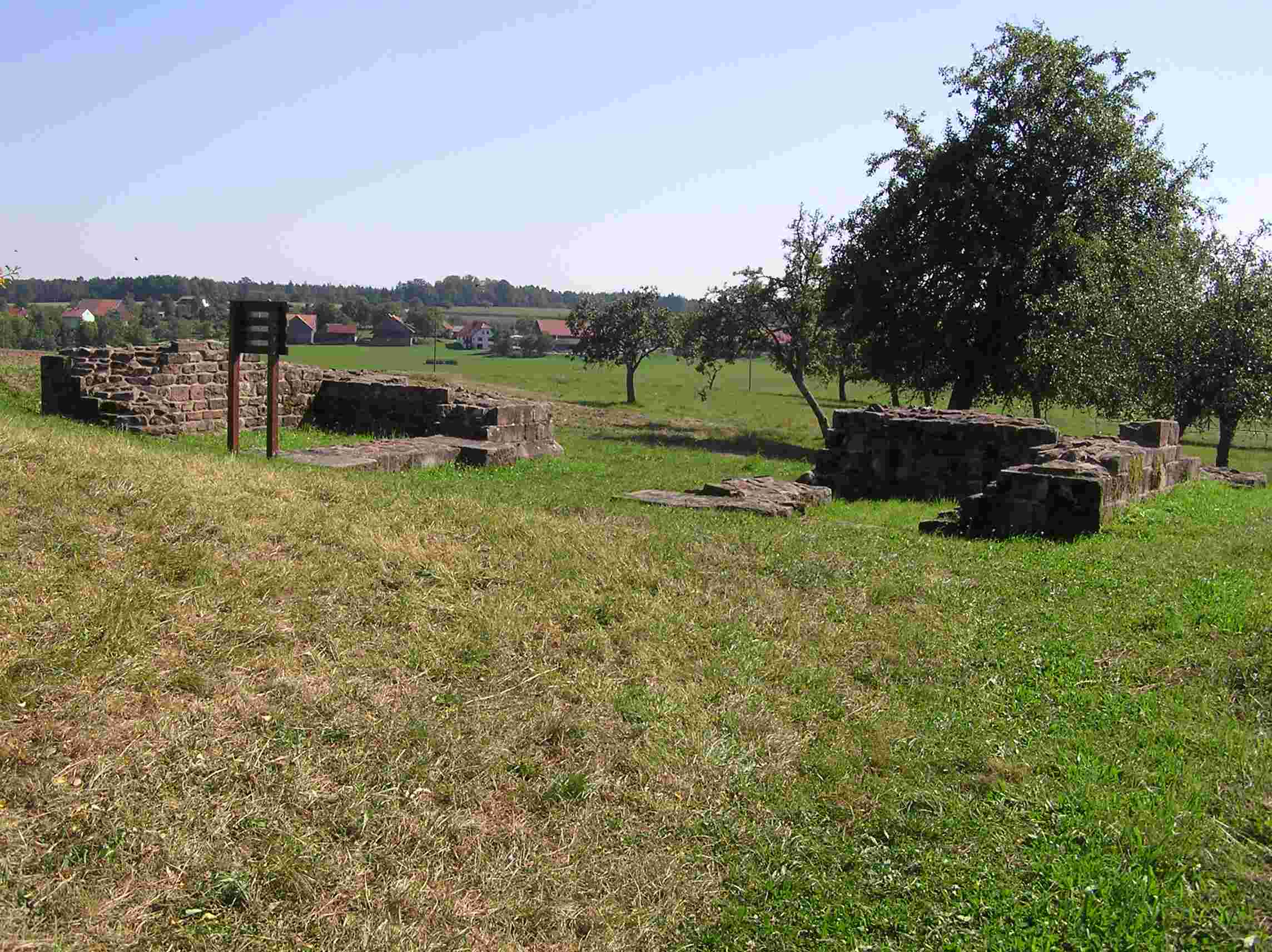 Description: Roman fort Oberscheidental ORL52 / Germany Author: Schwing, picture taken 05.09.2005